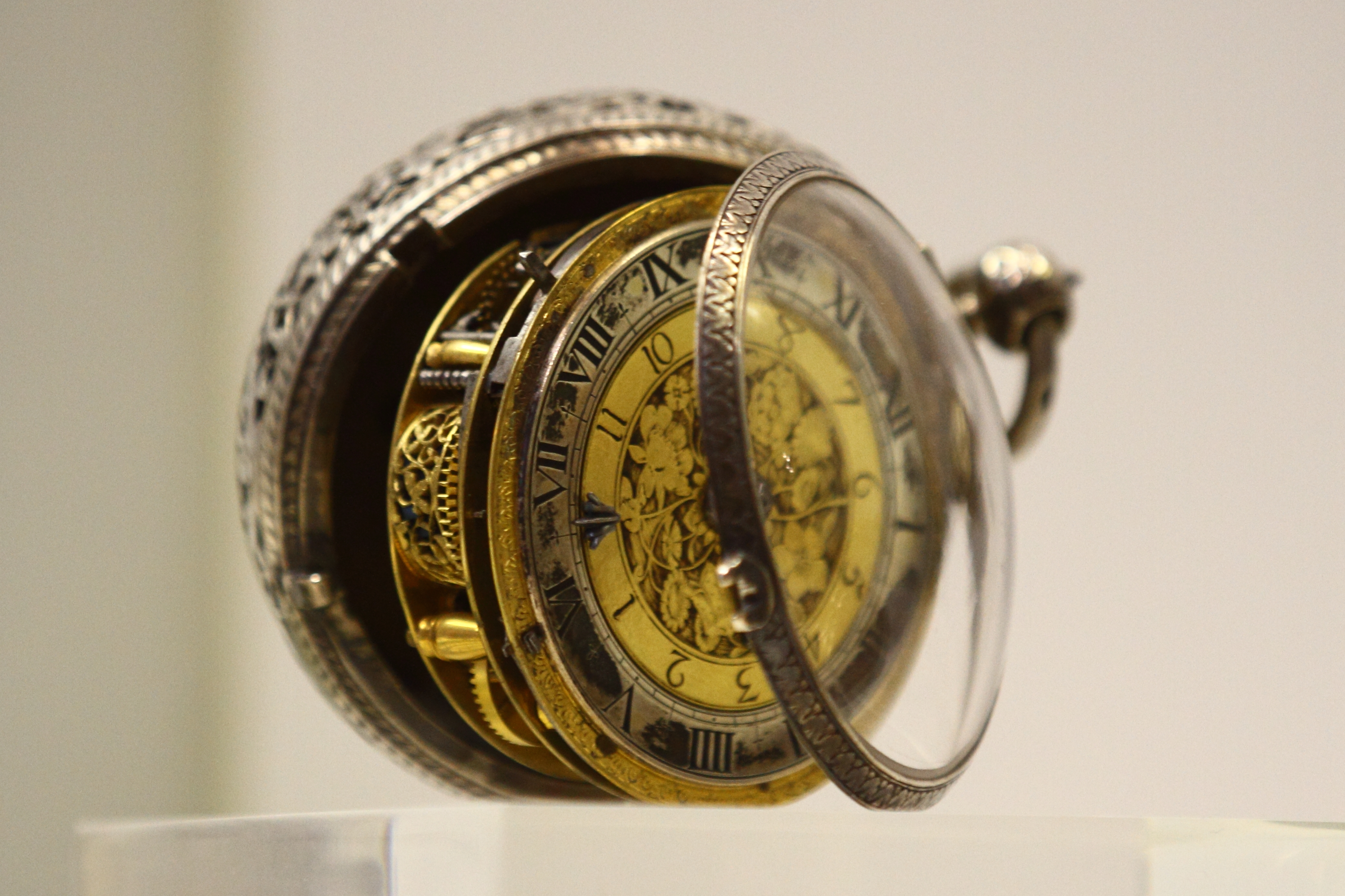 Musée Paul-Dupuy in Toulouse - Collection of horology